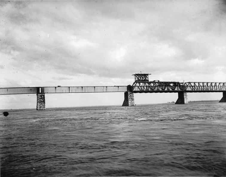 Photograph, Changing the tube of Victoria Bridge, from Shorton's yacht, Montreal, 1898, Alfred Walter Roper, Silver salts on glass - Gelatin dry plate process - 10 x 12 cm